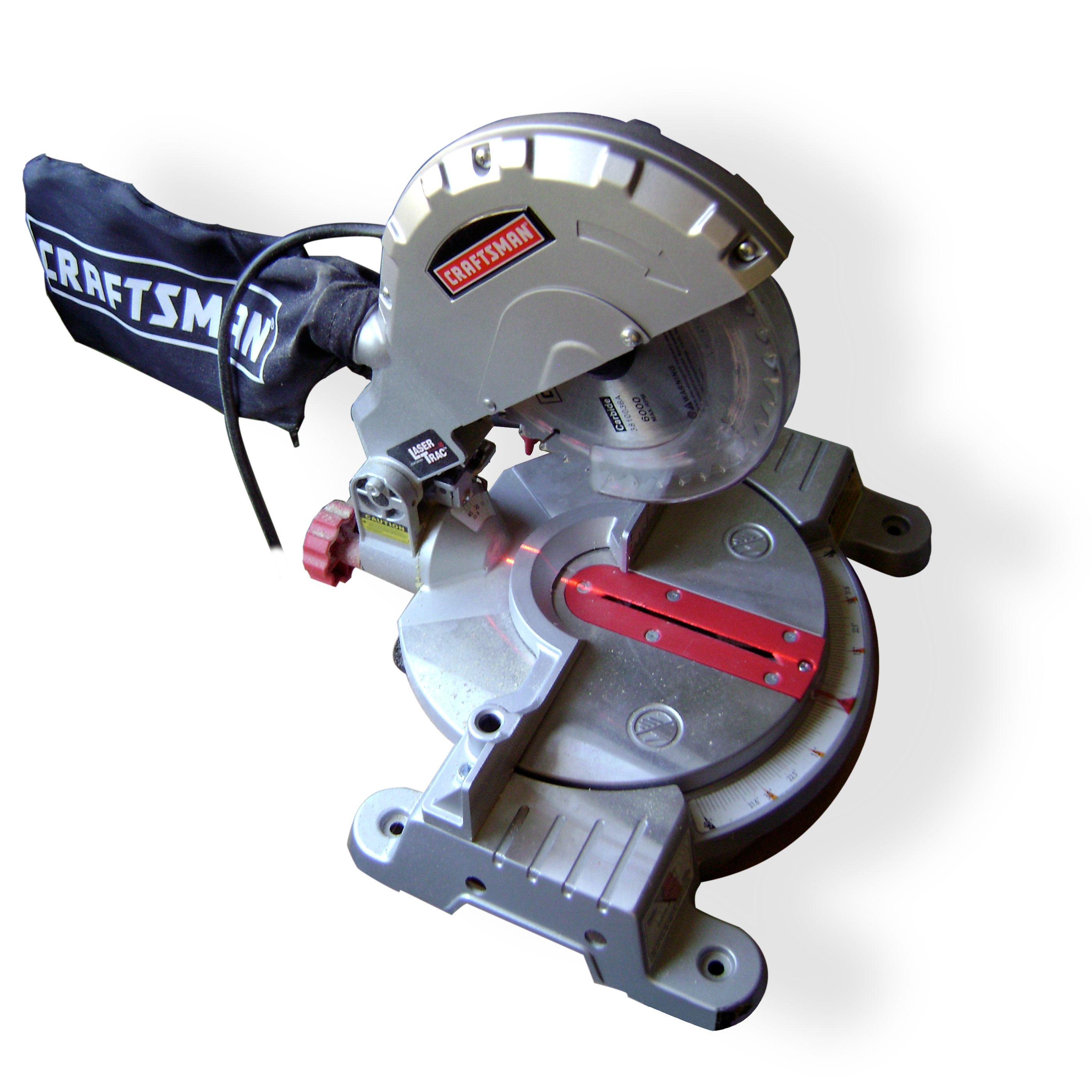 Electric miter saw